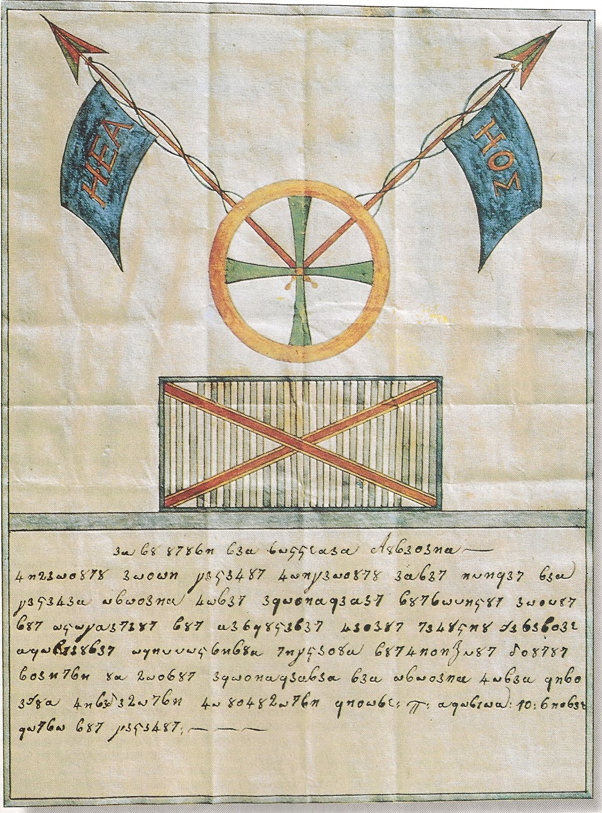 Flag of / Drapeau de la Filikí Etería